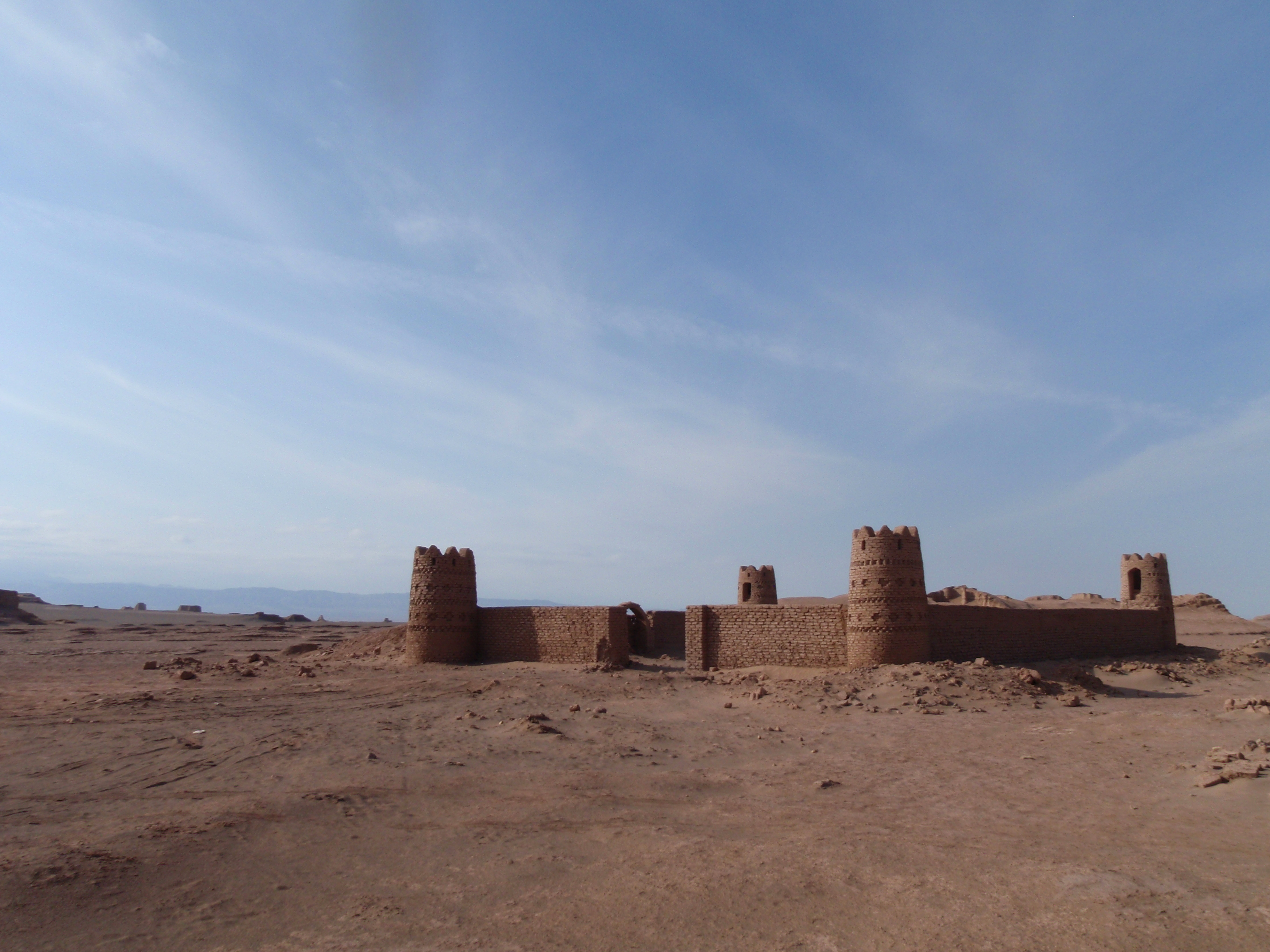 Abandoned caravanserai. Dasht-e Lut, Iran.